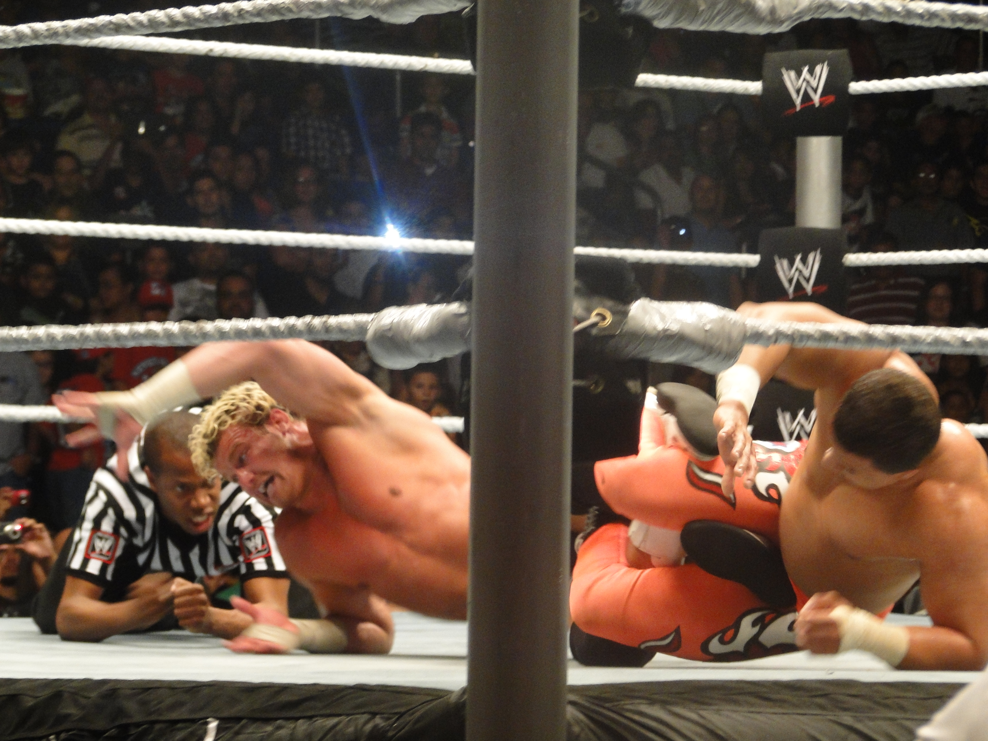 Primo applying a Figure-Four Leglock on Dolph Ziggler in his hometown of San Juan, Puerto Rico